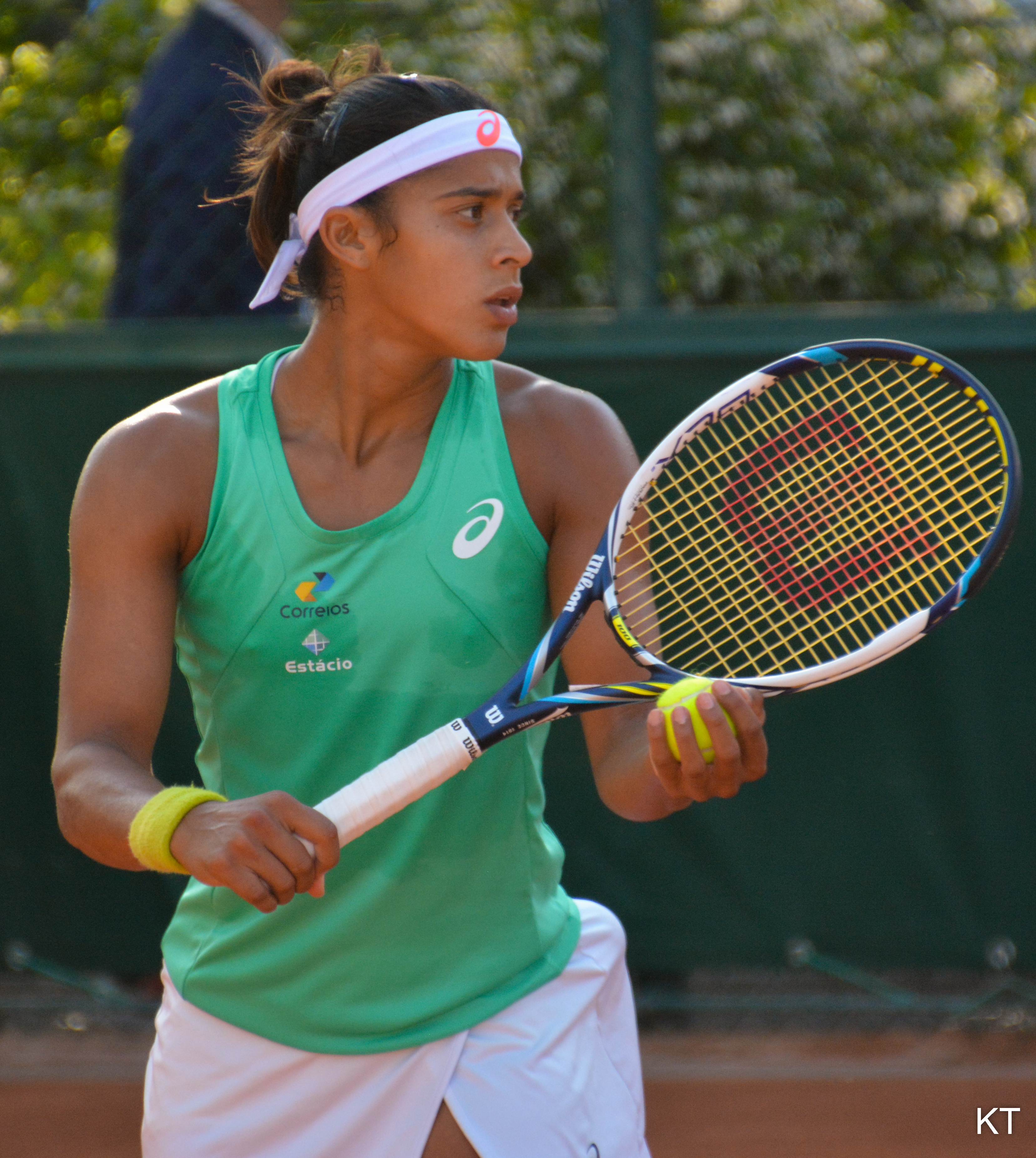 Day 4 of Roland Garros 2015.